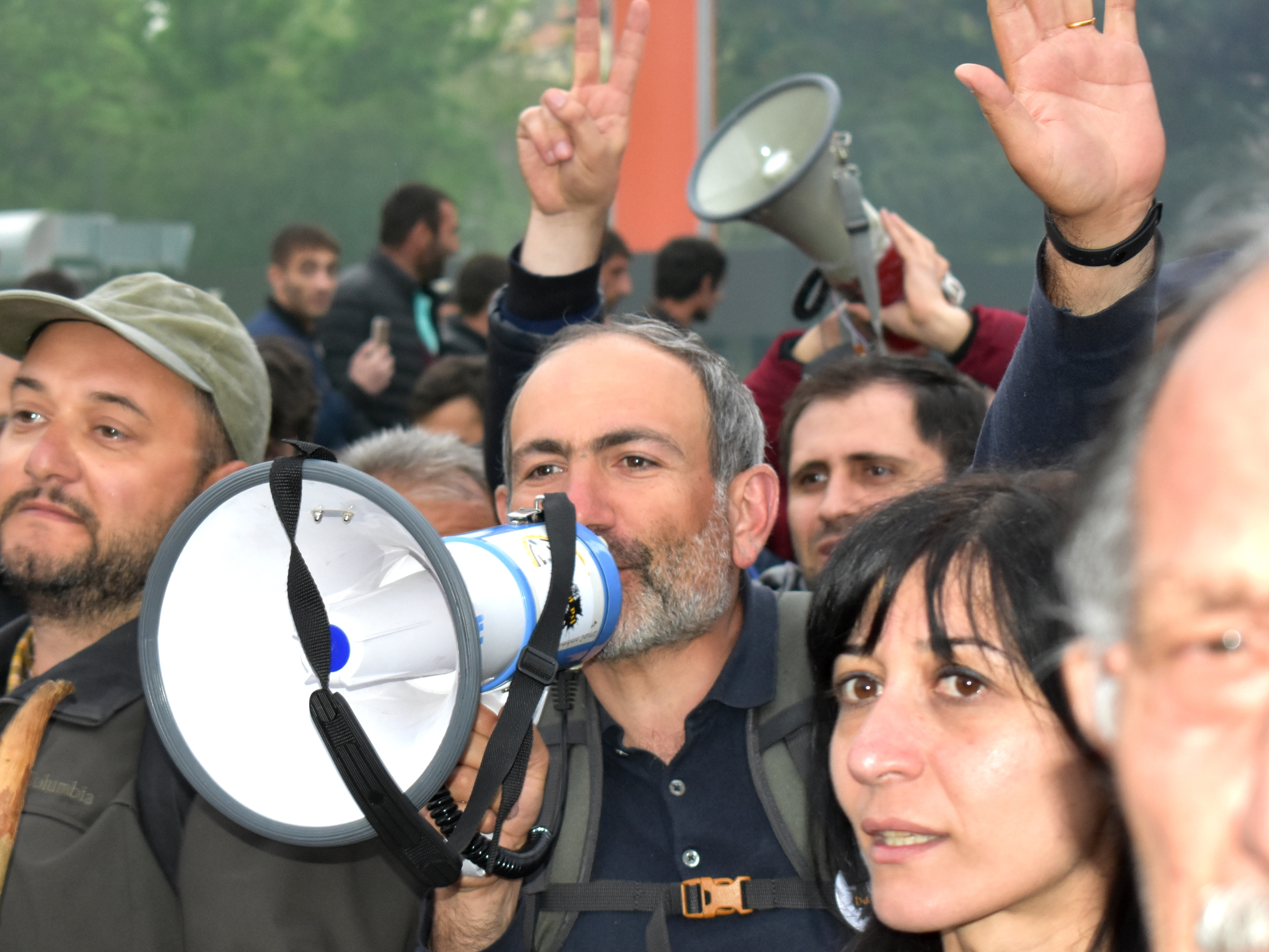 Nikol Pashinyan, Freedom Sq (Opera), Yerevan